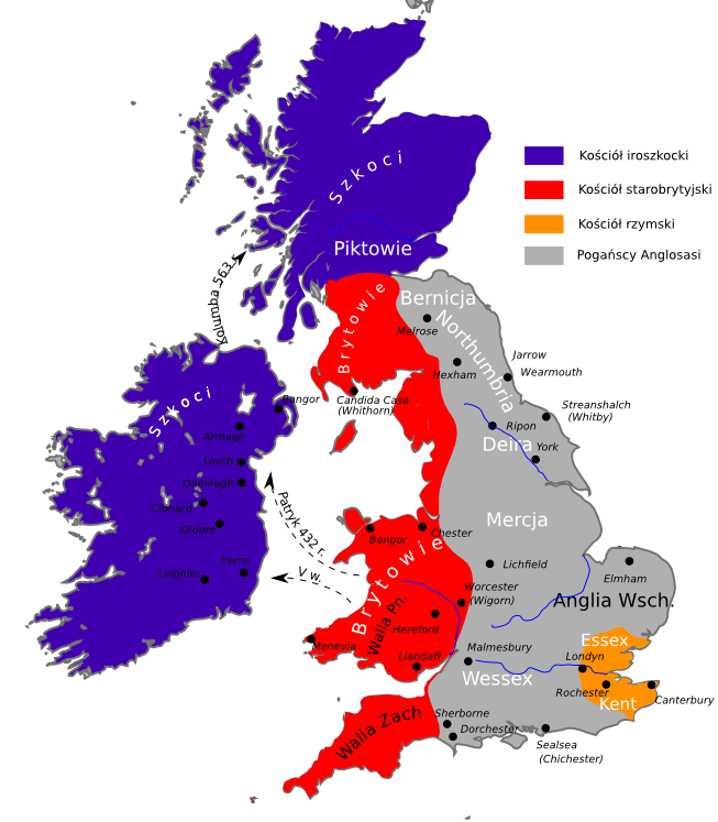 Religions on the British Isles in VI century AD